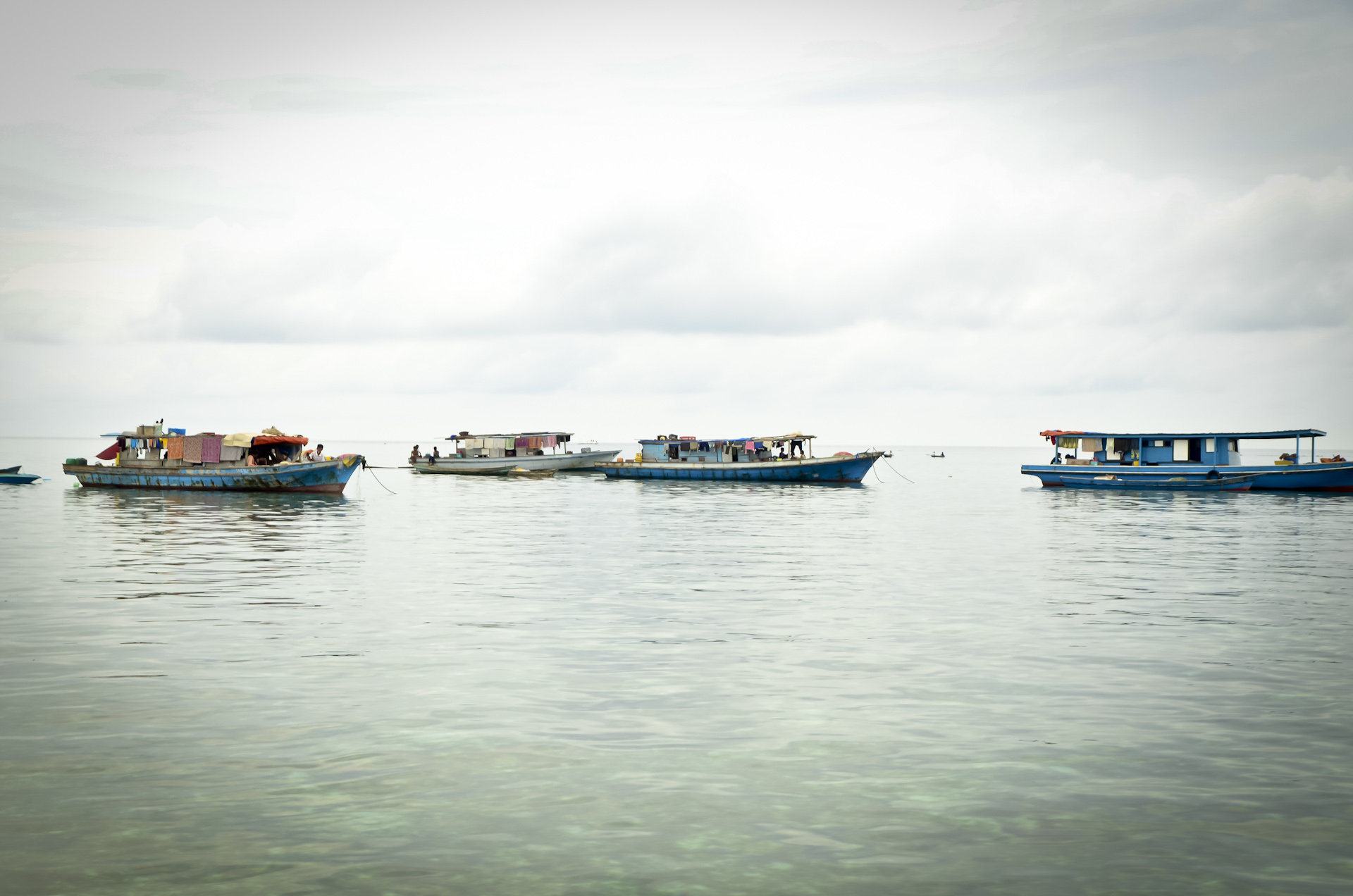 Sea Gypsies in front of Mabul Island